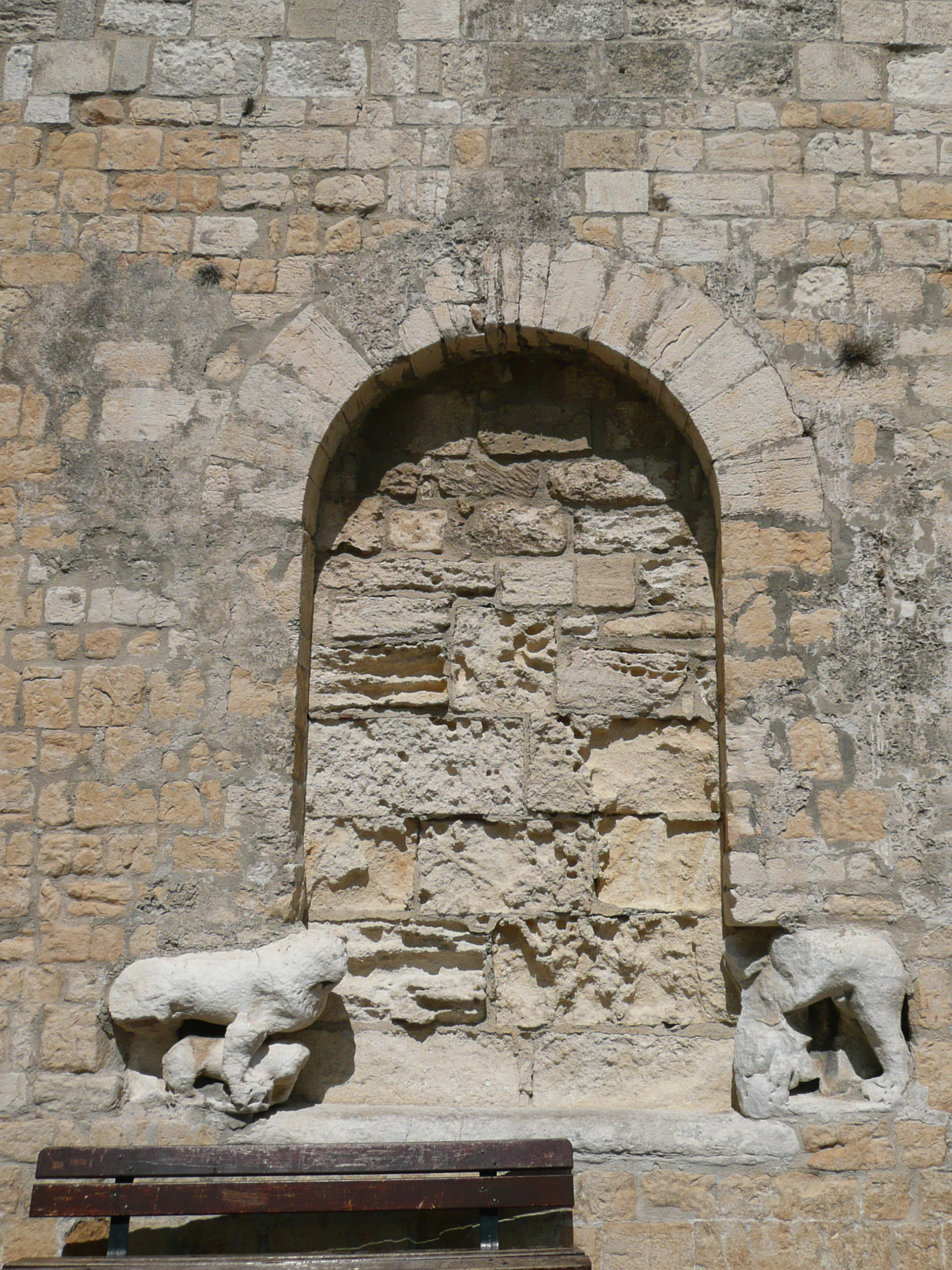 Lions at Saintes-Maries-de-la-Mer Camera: Panasonic DMC-TZ3 License on Flickr (2012-02-03): CC-BY-2.0 Flickr tags: camargue, france, saintes-maries-de-la-mer